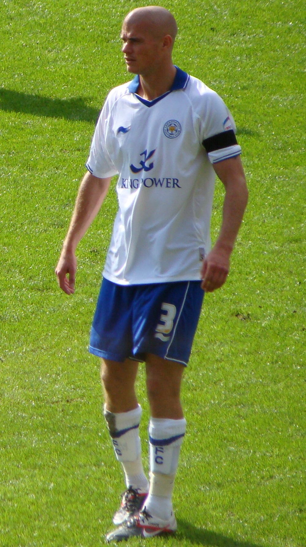 25/09/11 Cardiff V Leicester, Championship, Cardiff City Stadium, Cardiff, Wales